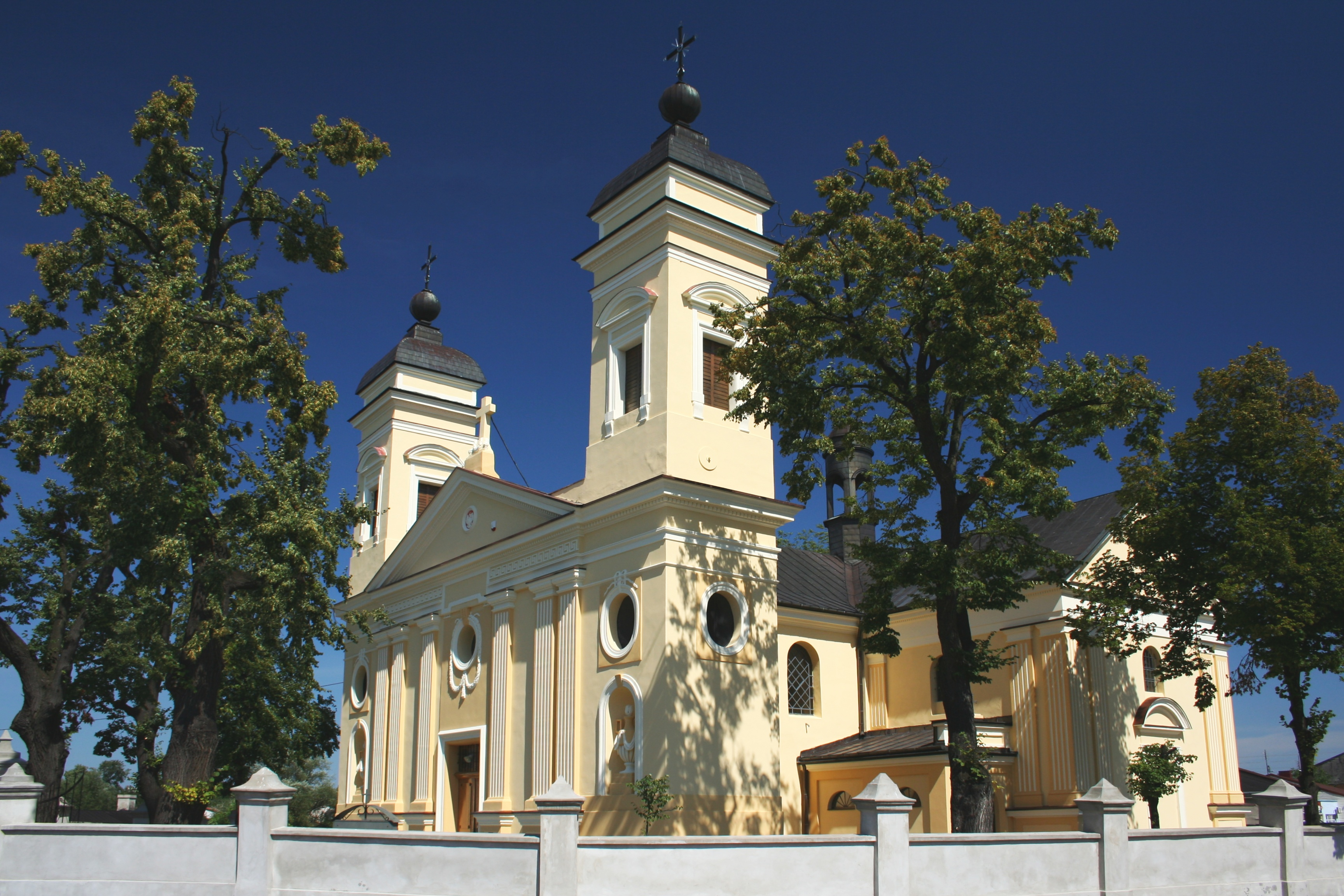 Saint Bartholomew churche in Szczekociny, Poland